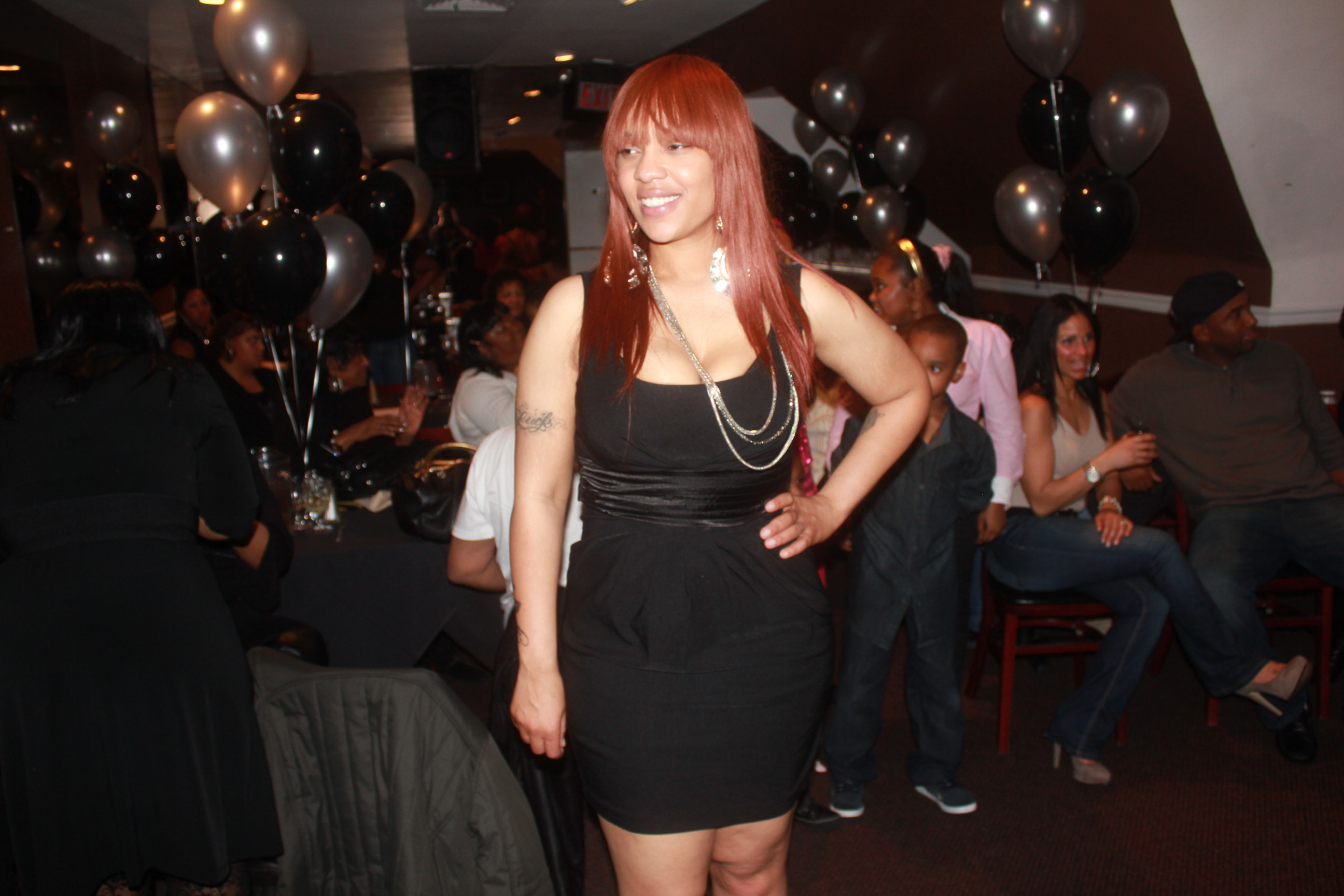 lady luck at her mothers birthday party